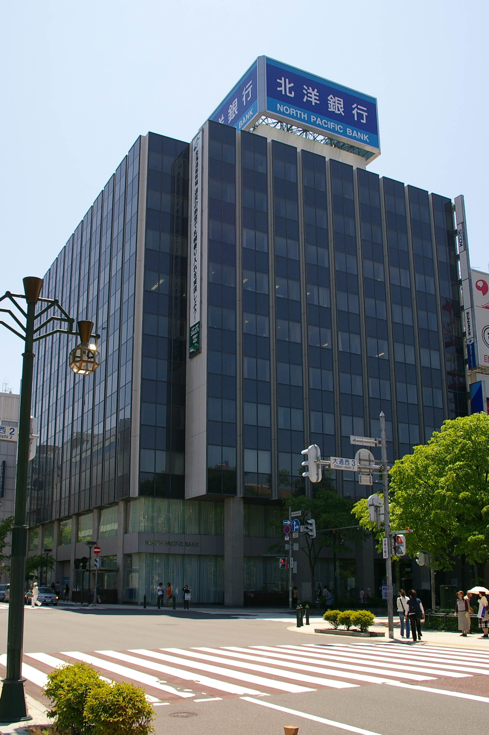 Photograph of Hokuyo Building, headquarters of Sapporo Hokuyo Holdings and the central branch of North Pacific Bank, in Chuo-ku, Sapporo, Hokkaido, Japan.